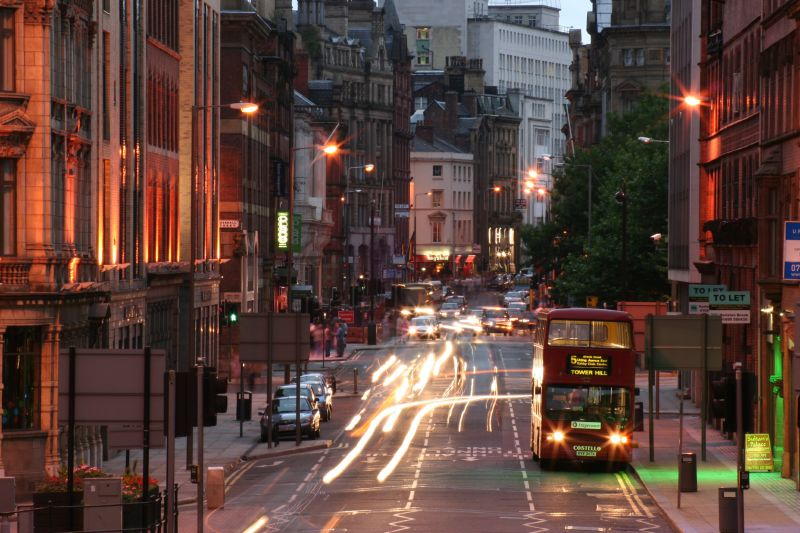 liverpool victoria street photograph taken by Robert Smith, released into the public domain.